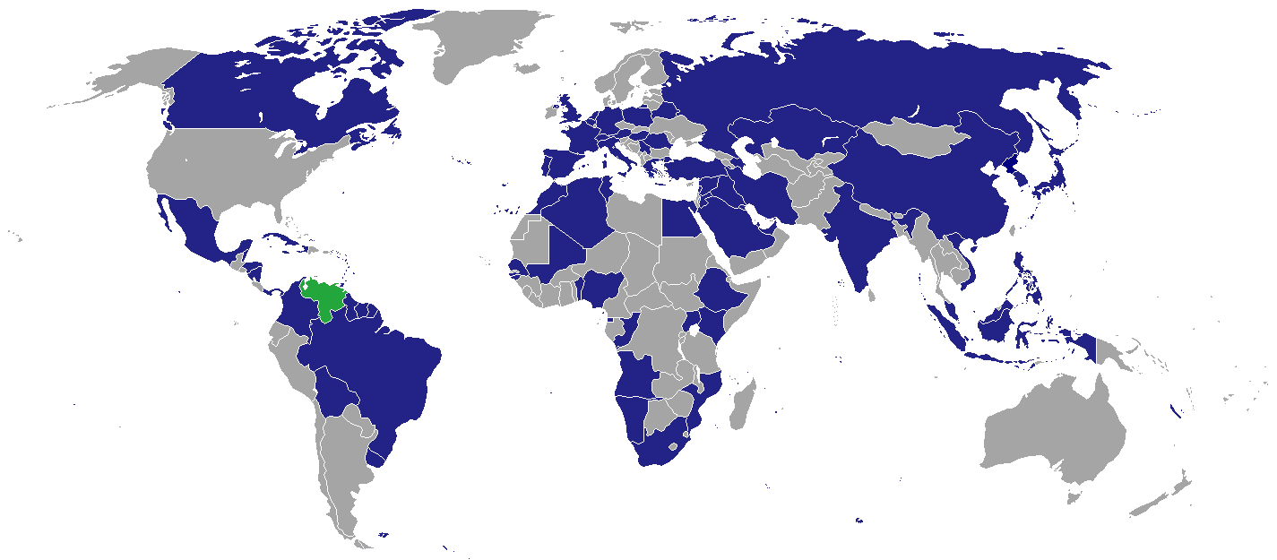 Map of Venezuelan diplomatic missions